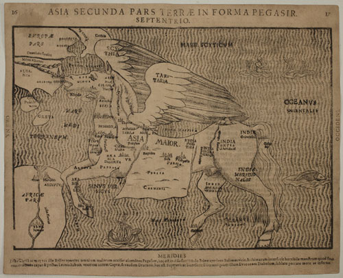 BÜNTING, Heinrich. Asia Secunda pars Terræ in Forma Pegasir. Magdeburg, 1581-, German edition. The famous curiosity / fantasy map, and highly collectible antique map of Asia depicted as Pegasus, the winged horse of Perseus. The head is Turkey and Armenia, the wings Scythia and Tartary, forelegs Arabia, hind legs India and the Malay Peninsula. The map appears in Bünting's Itinerarium, in which the author, a theologian, rewrote the Bible as an travel book. with other fantasy maps including the World as a cloverleaf and Europe as a queen.